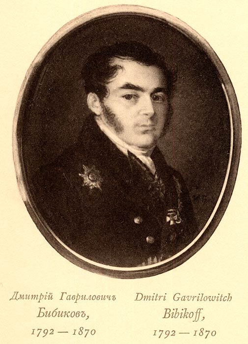 Unknown artist - Protrait of Dmitry_Gavrilovich Bibikov